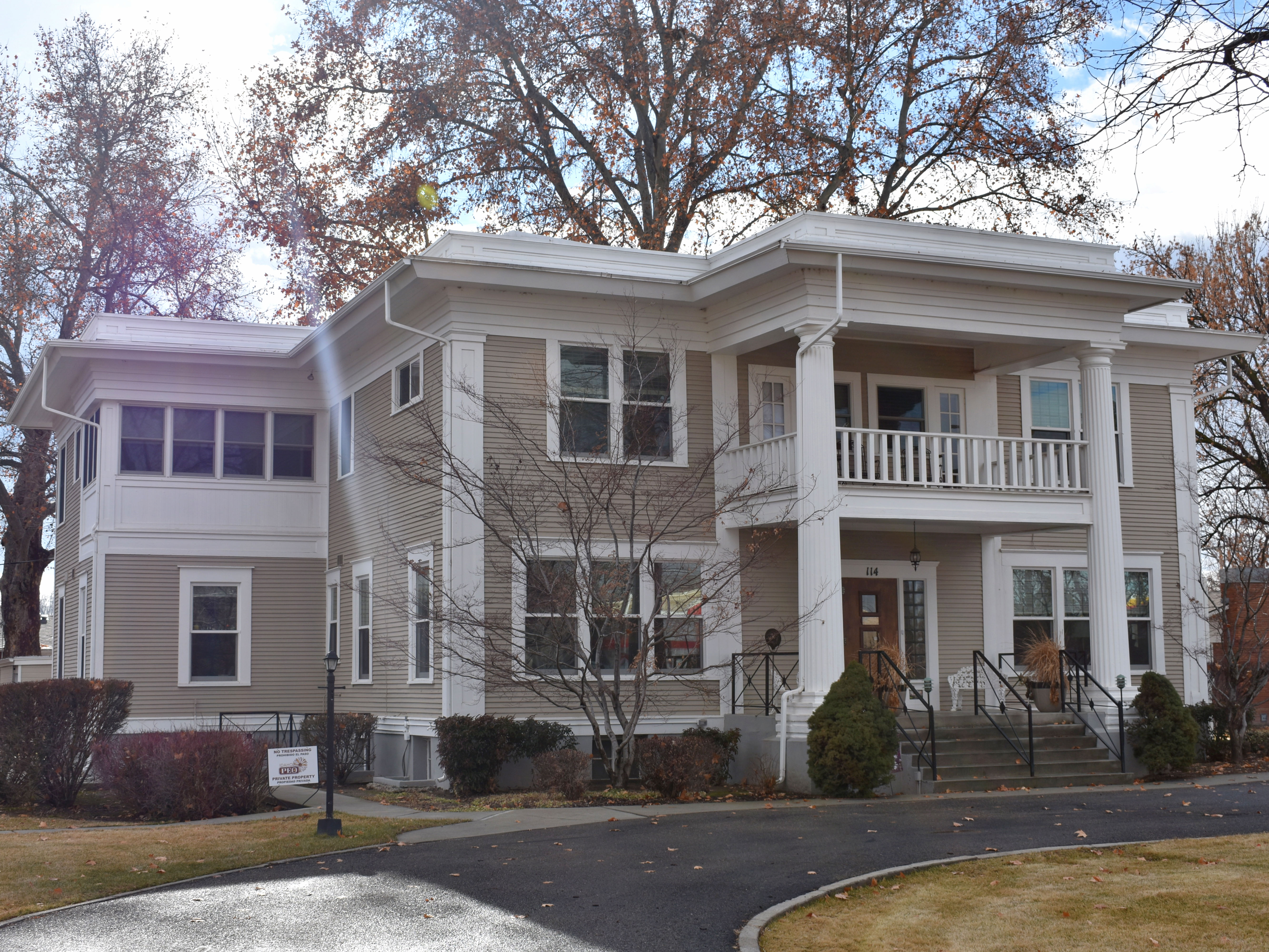 The Henry W. and Ida Frost Dorman House (1910) in Caldwell, Idaho, is listed on the National Register of Historic Places.